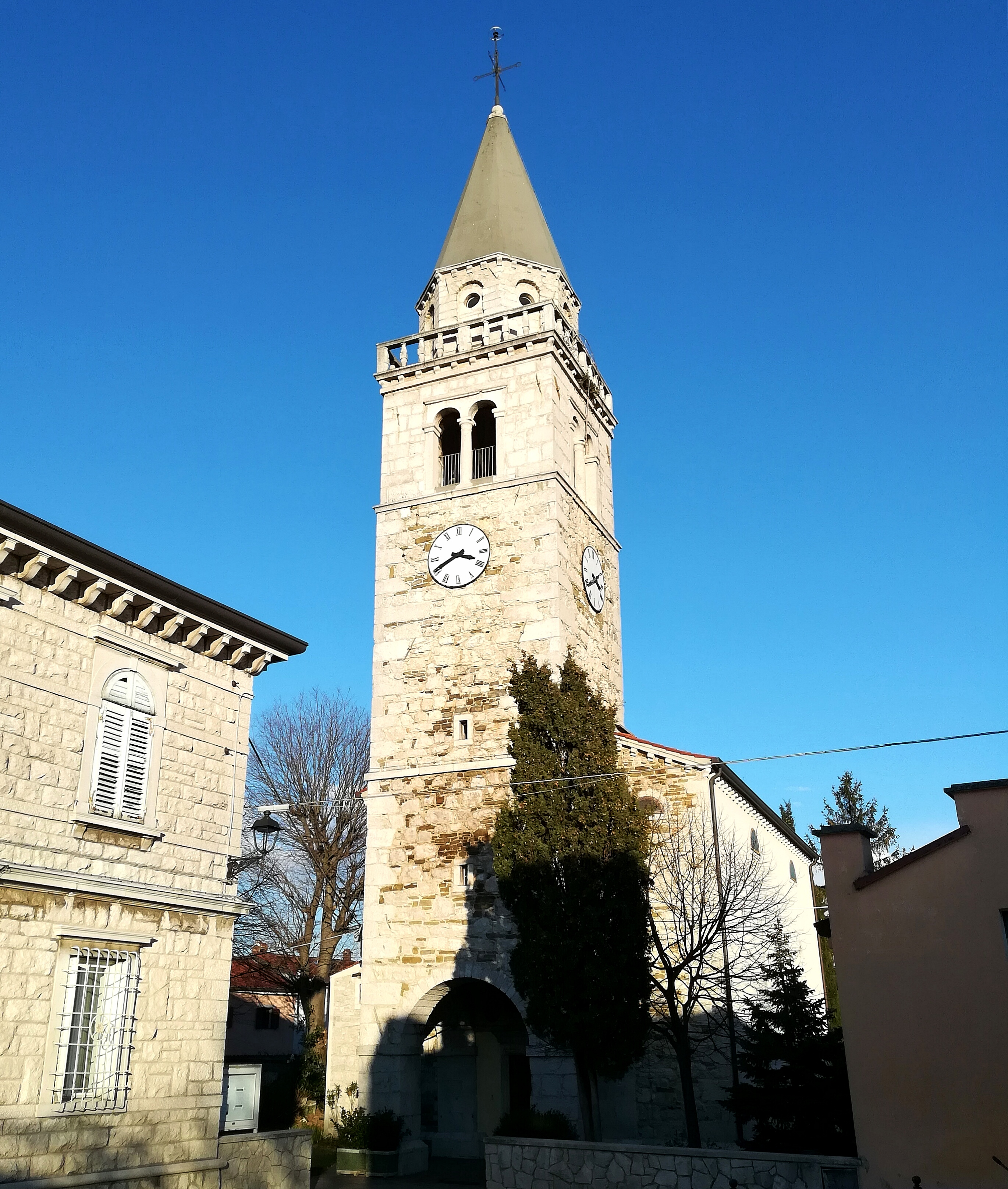 The church of Prosecco